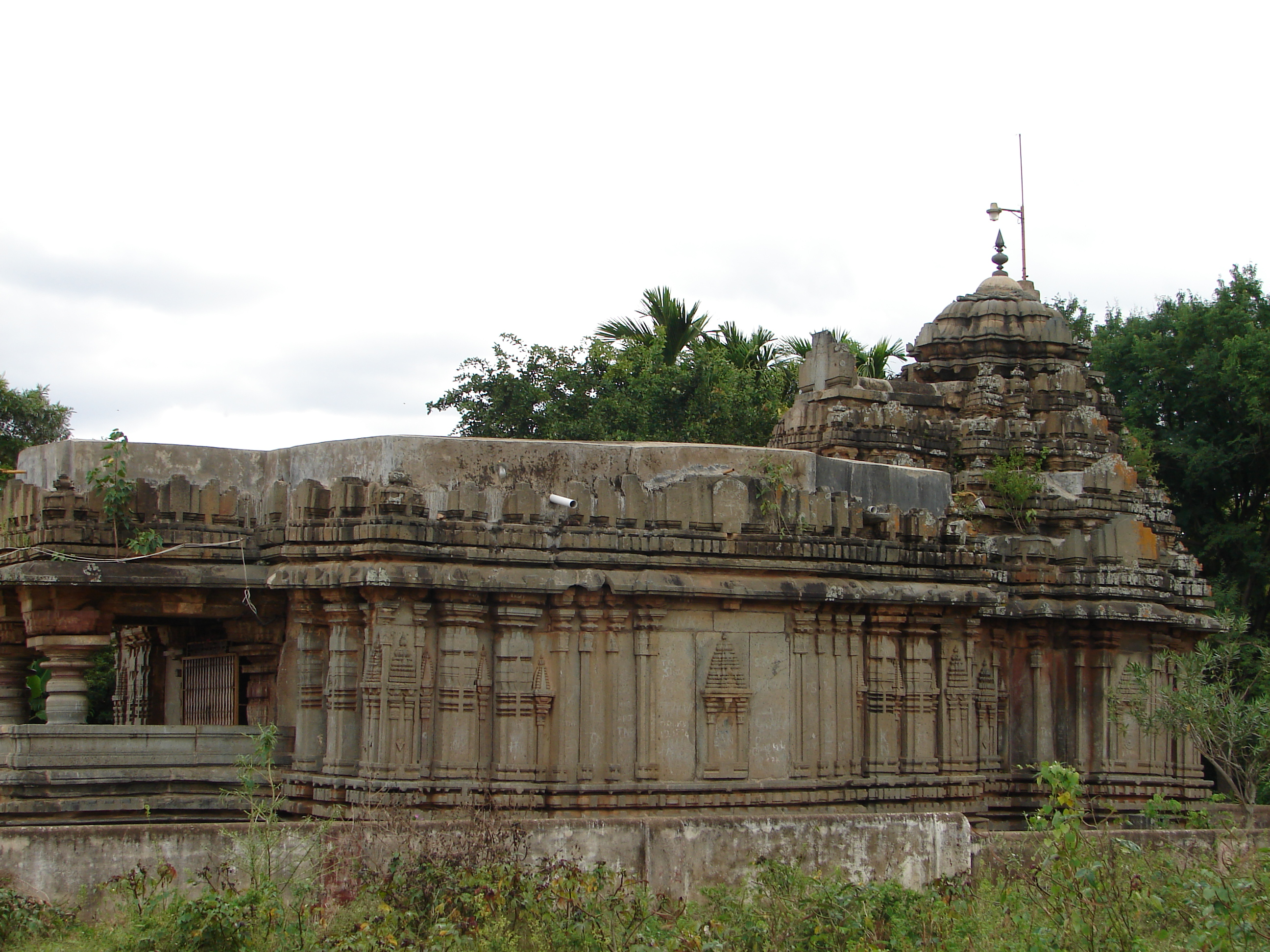 This photograph was taken by me at at Chennakeshava temple in Turuvekere, Tumkur district, Karnataka state, India. The temple was built in 1260 A.D. during the reign of Hoysala Empire King Narasimha III.